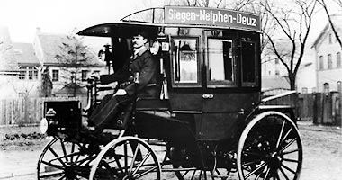 Benz Omnibus of 1895, built for Netphener bus company.